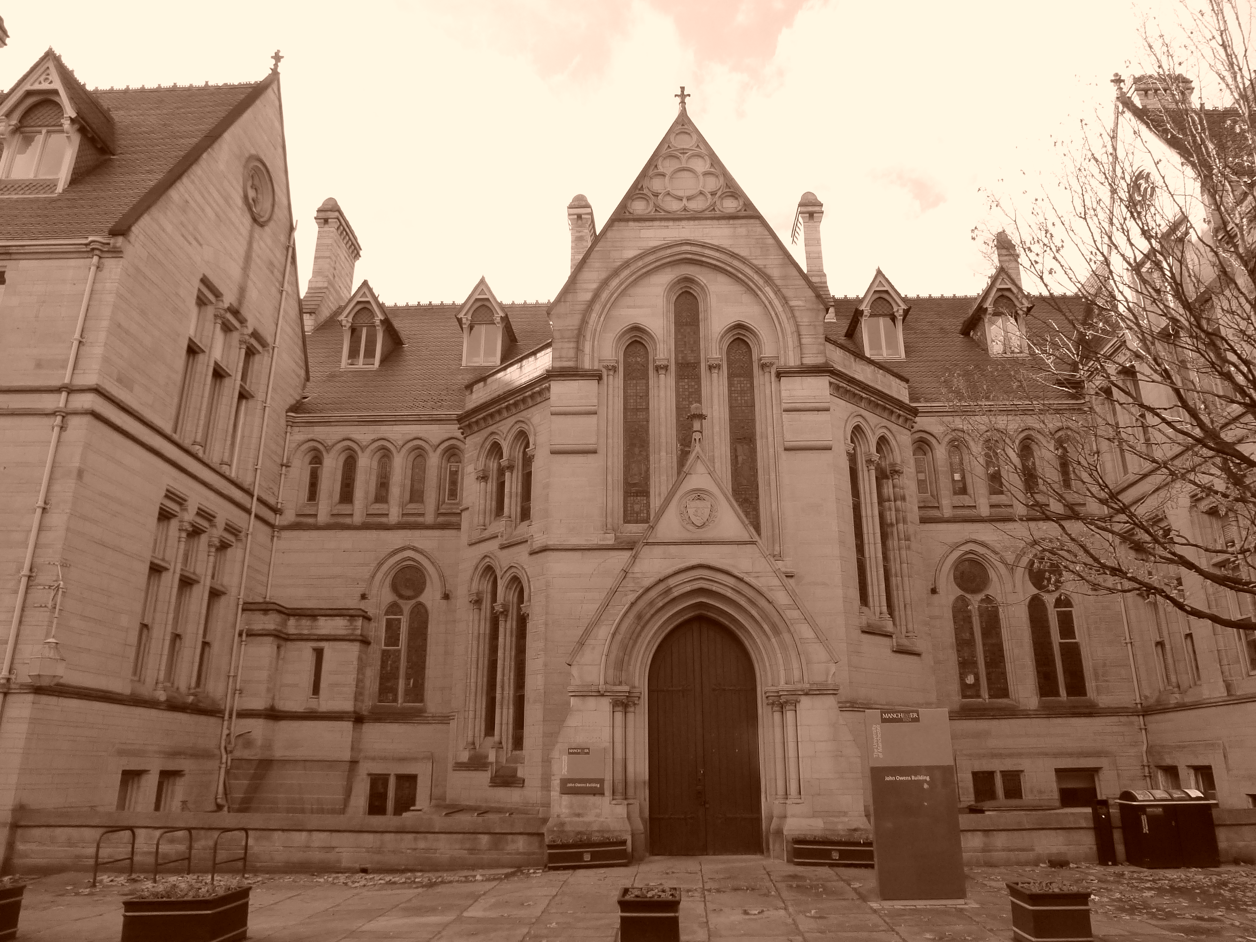 John Owens Building, Manchester University. The building is named after the Manchester-born merchant John Owens (1790-1846), the son of Owen Owens who had come here from Flintshire, North Wales. Photo taken in monotone mode on Saturday 3rd November 2012.